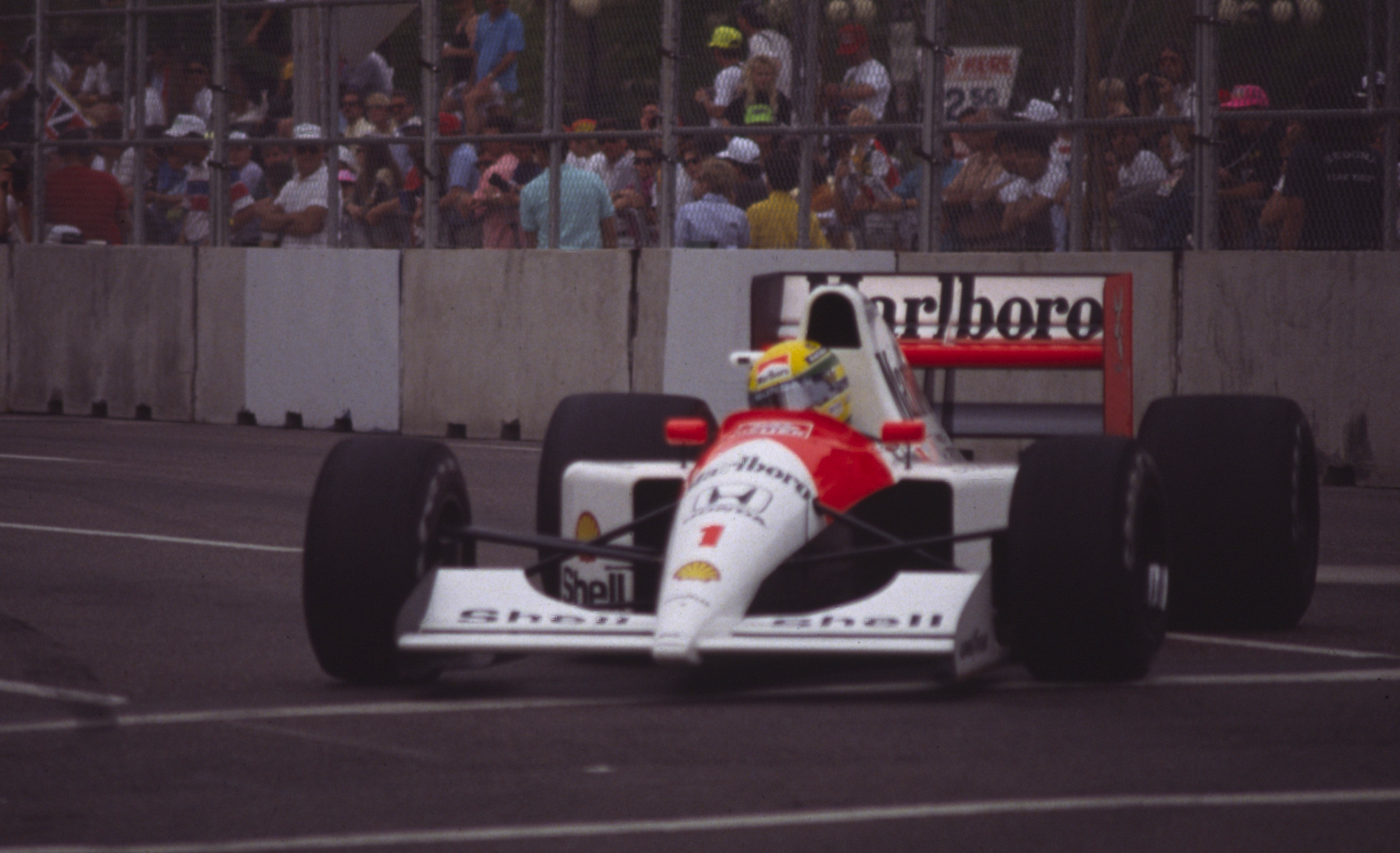 Ayrton Senna driving for McLaren at the 1991 United States Grand Prix.